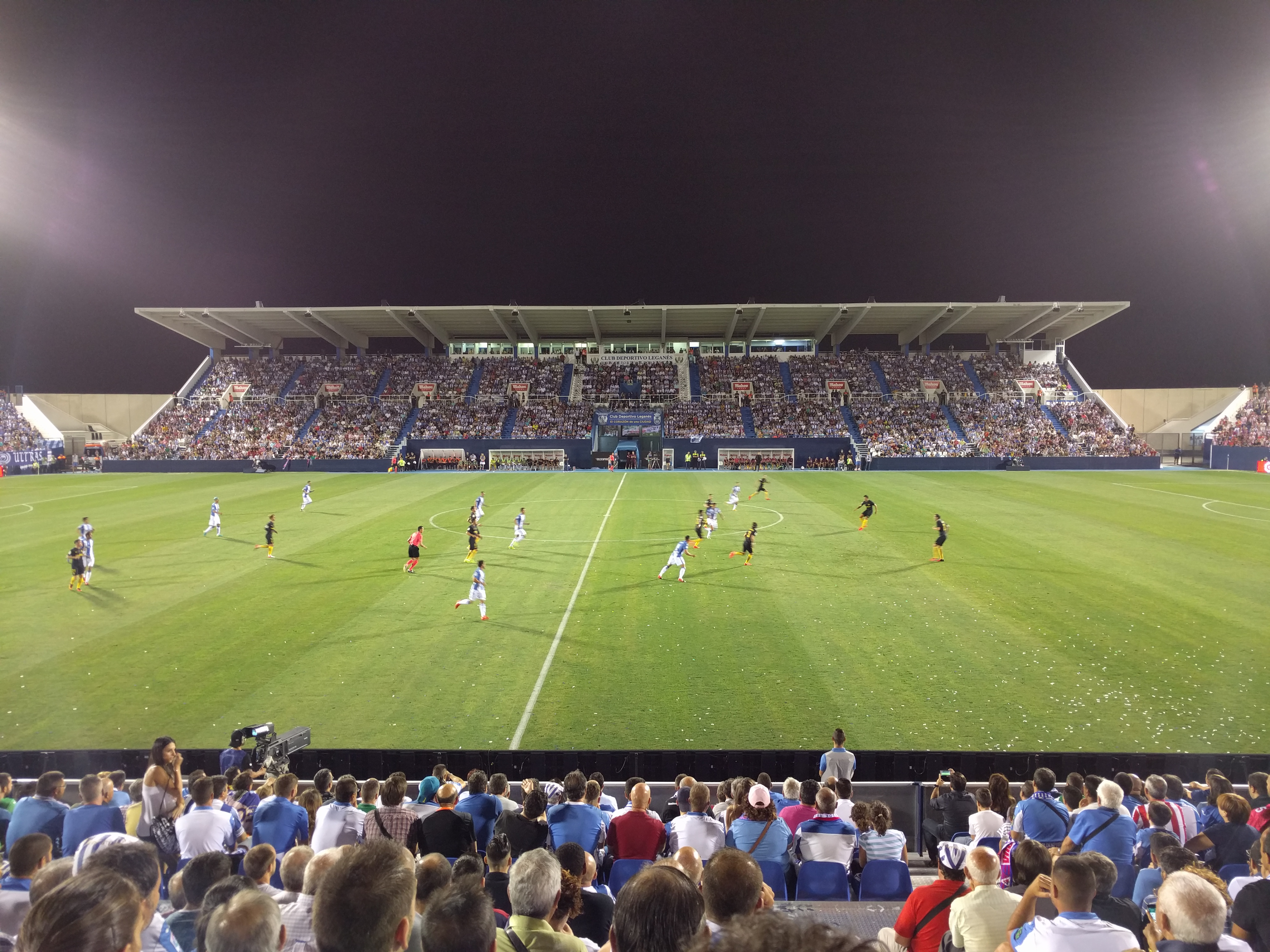 CD Leganés 0:0 Atlético de Madrid, 27th August 2016